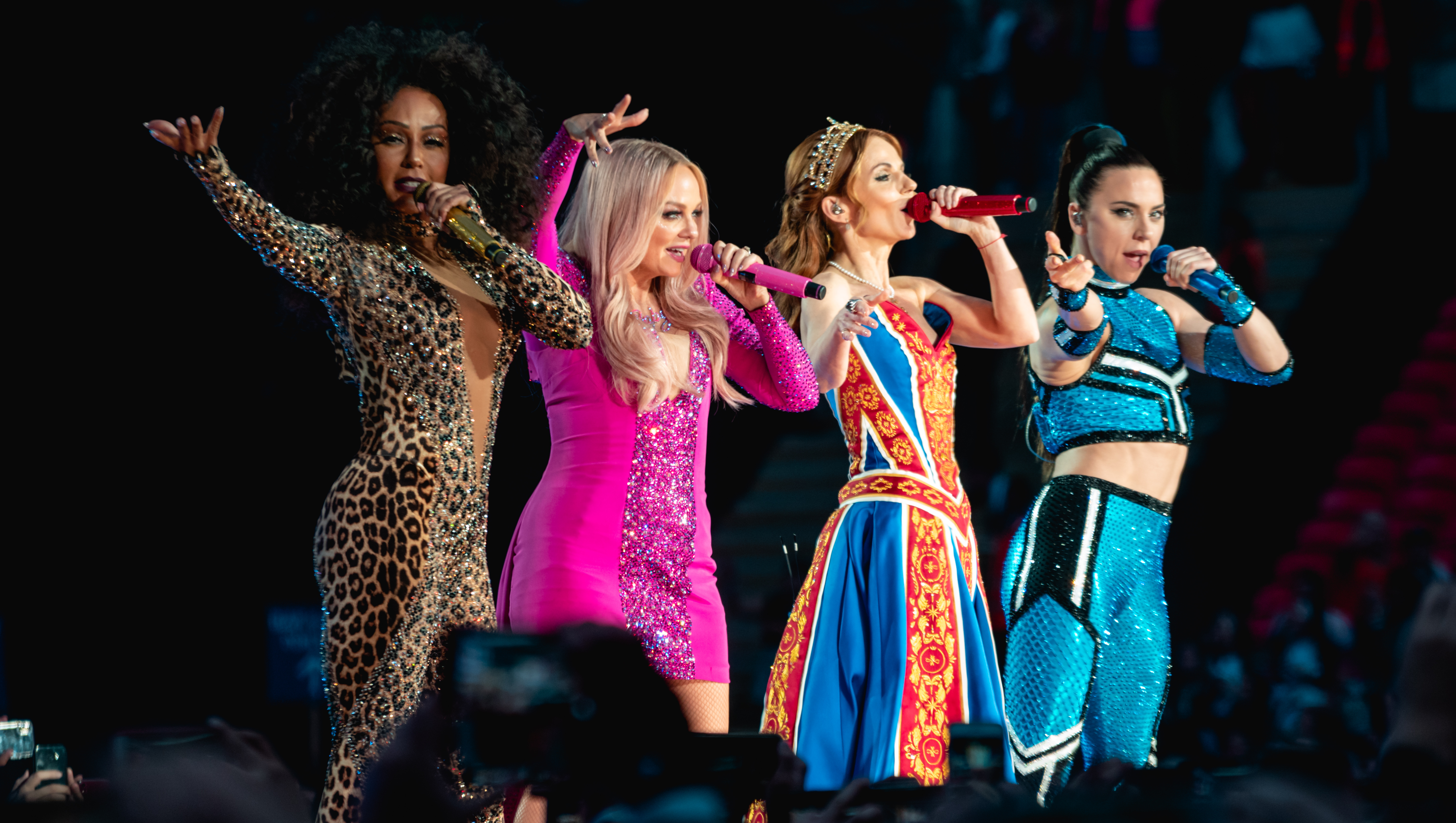 SpiceGirlWembley150619-2